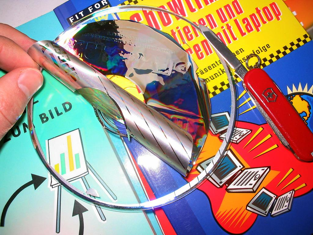 blank cd: data layer; location: AUT/Salzburg